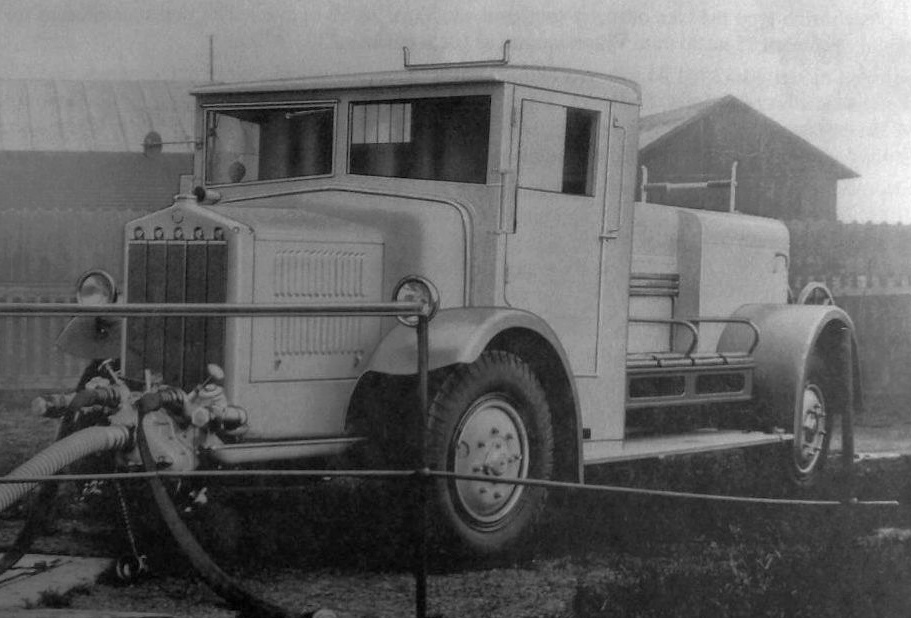 Tatra T27, an early model.